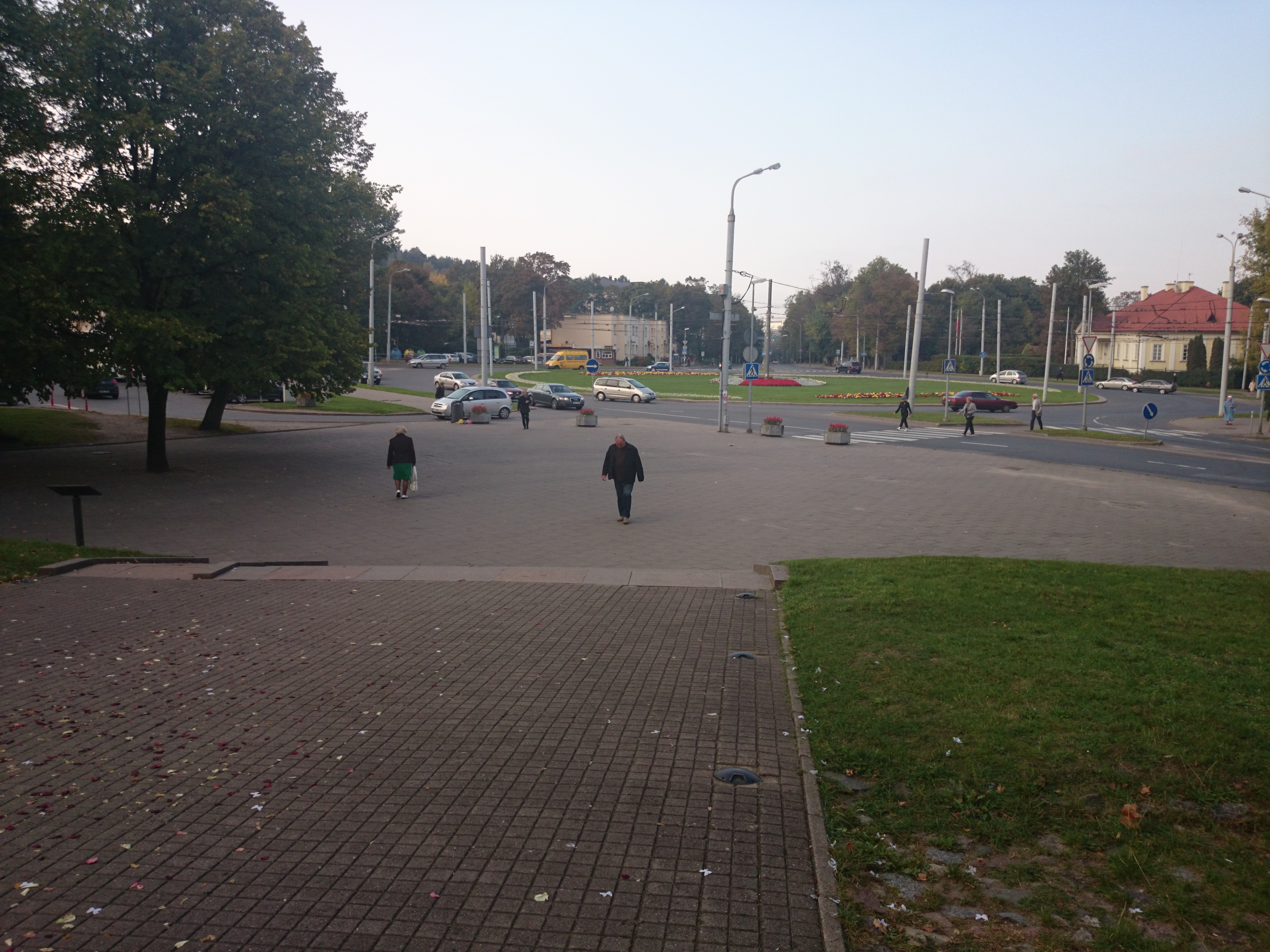 Jonas Paulius Square